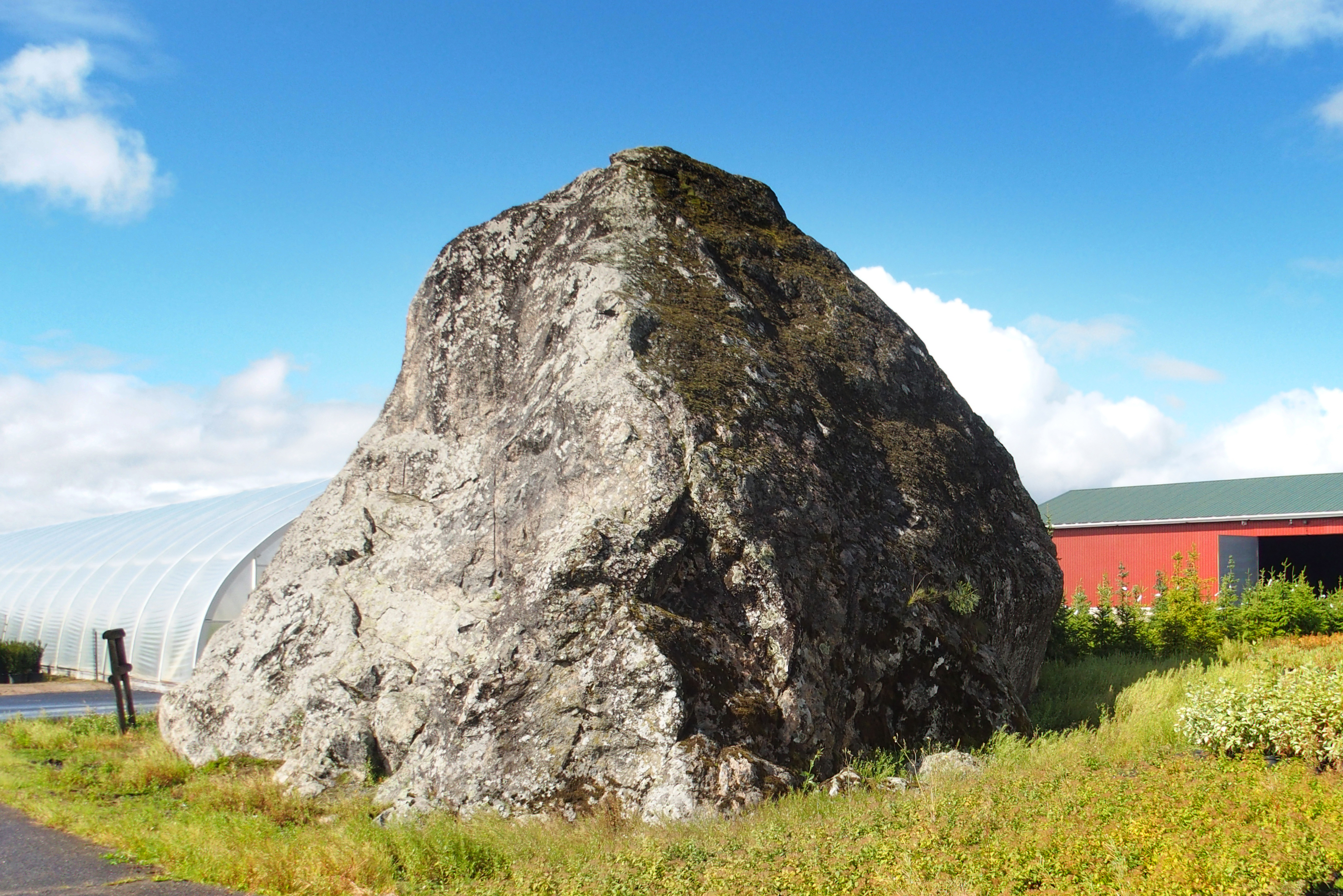 Nousiaisten Emovaha-siirtolohkare